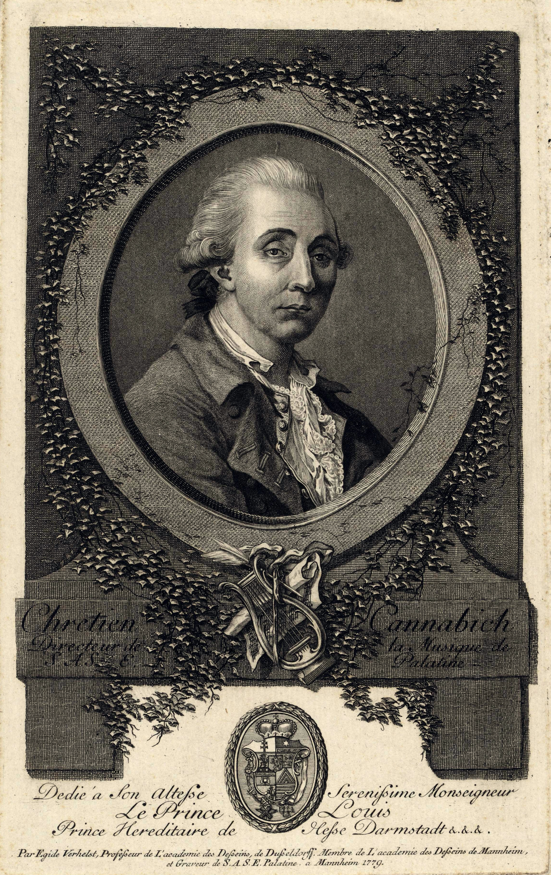 Depicted person: Christian Cannabich